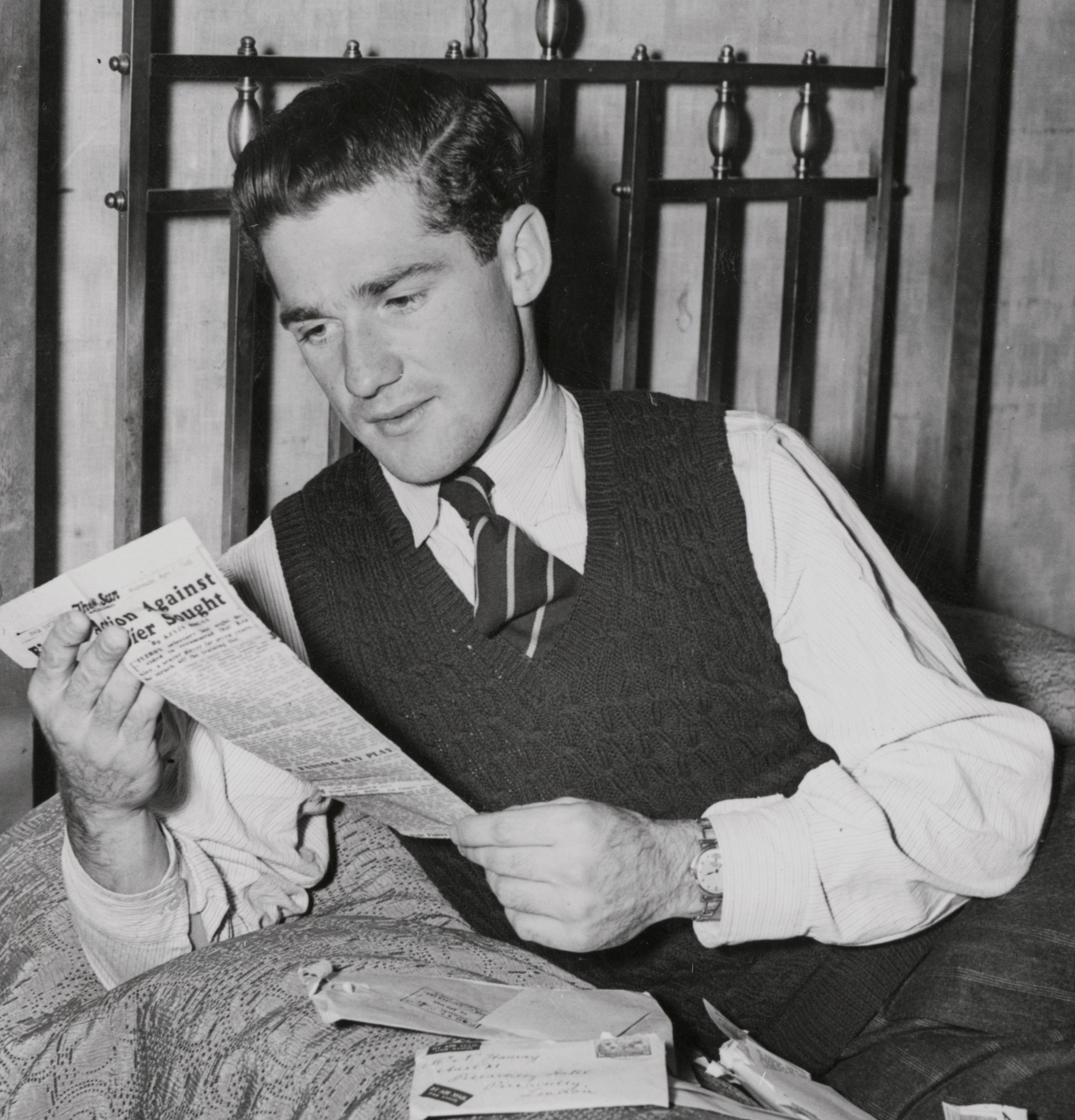 Mail from home (to Neil Harvey)